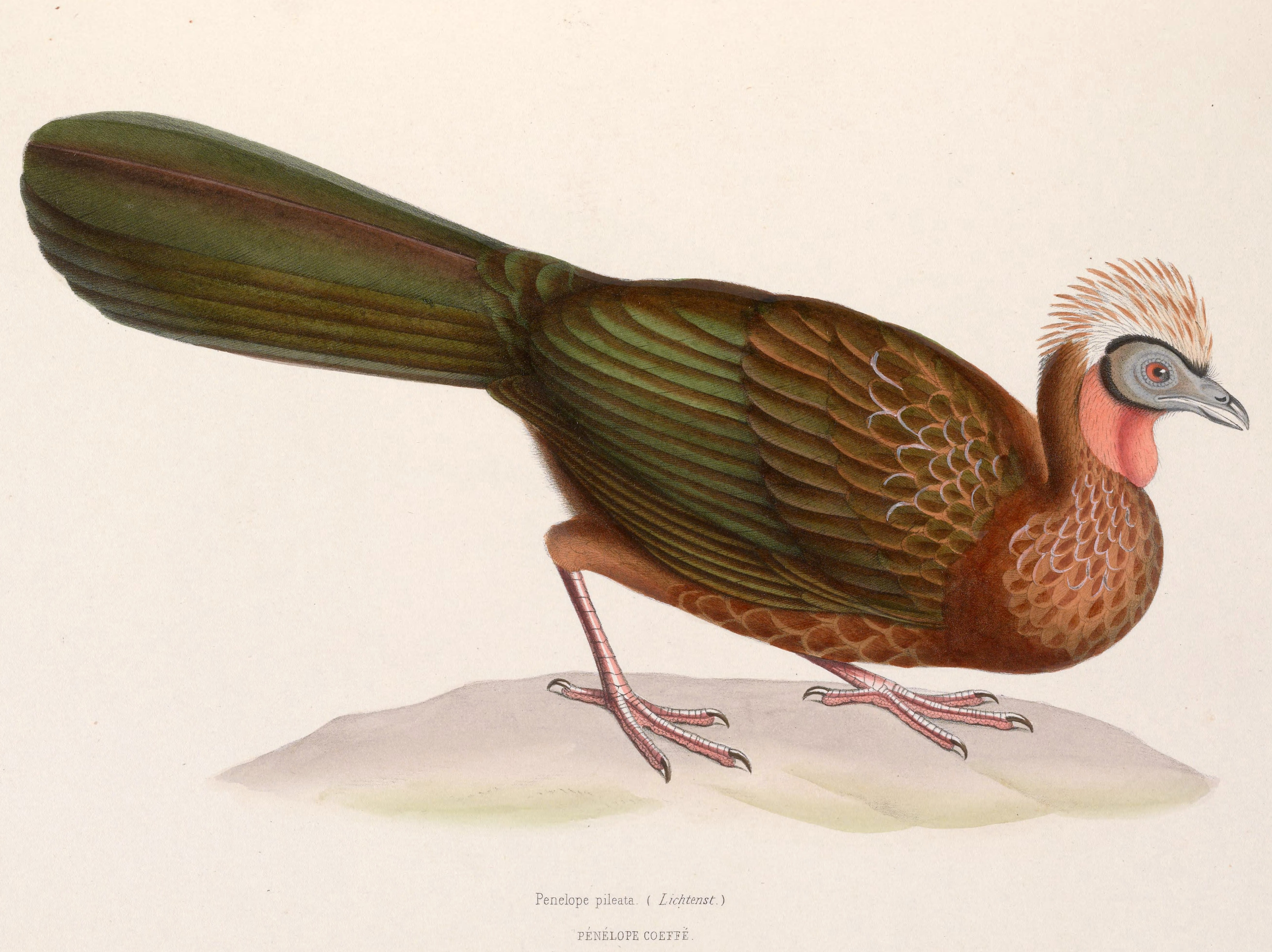 Penelope pileata = Penelope pileata (White-crested Guan)